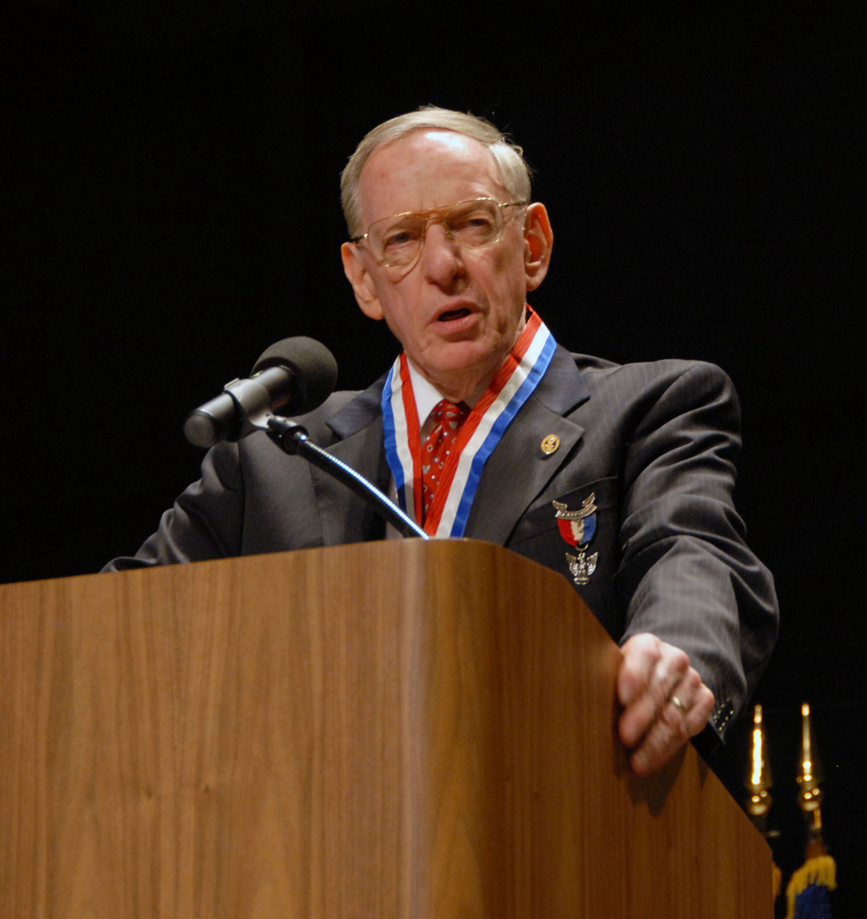 caption: "DAYTON, Ohio (10/27/2009) -- Maj. Gen. (Ret.) Charles D. Metcalf makes remarks after receiving the Distinguished Eagle Scout Award during a ceremony at the National Museum of the U.S. Air Force. (U.S. Air Force photo)"